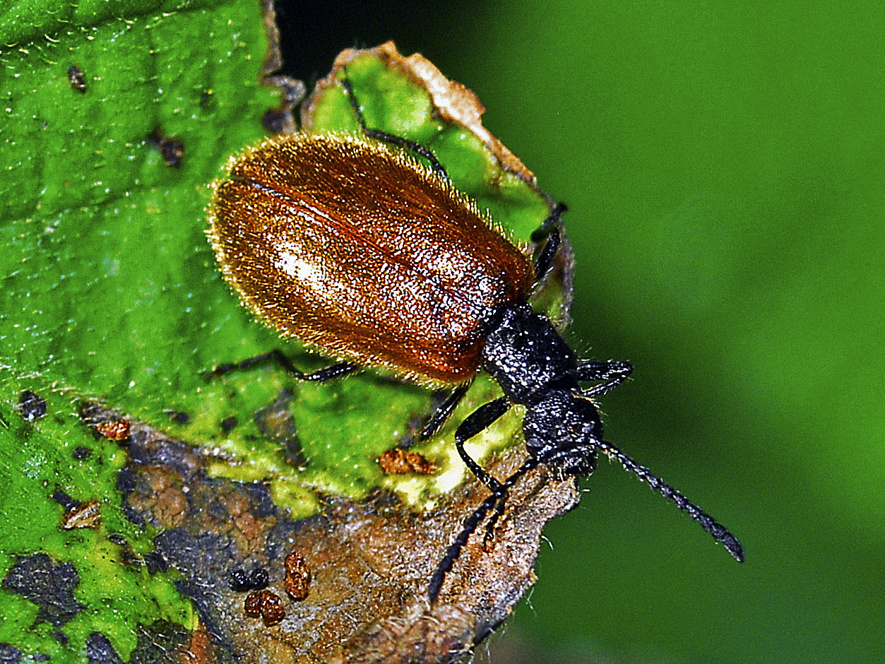 Lagria hirta, female. Val di Rhemes, Aosta, Italy